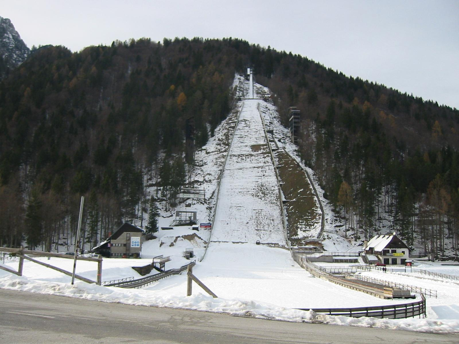 Ski-jumping place Planica, Slovenia (present world record site) photo:Ziga 11:01, 16 April 2007 (UTC)